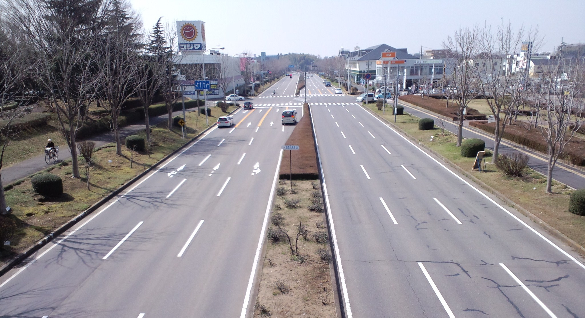 Gakuen-Minami-odori(Takezono 2-chome, Tsukuba-city, Japan).